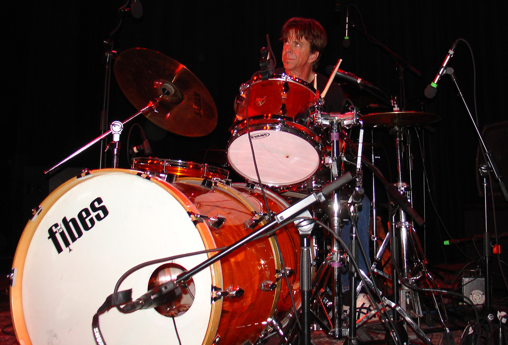 Chris Layton performing on stage.